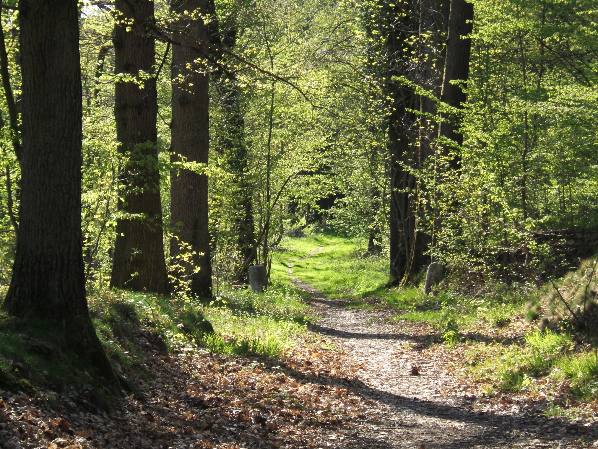 A path in a forest of Yvelines en France.